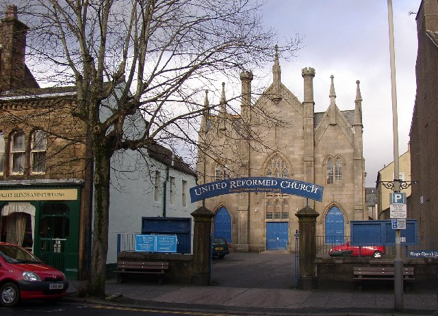 Cockermouth United Reformed Church. Founded as a Congregational Church in 1651. This building in Main Street was built in 1856, in a Perpendicular style. Behind it is a Sunday School with roughcast walls, round-headed windows to the ground floor and sash windows above, built in 1719.